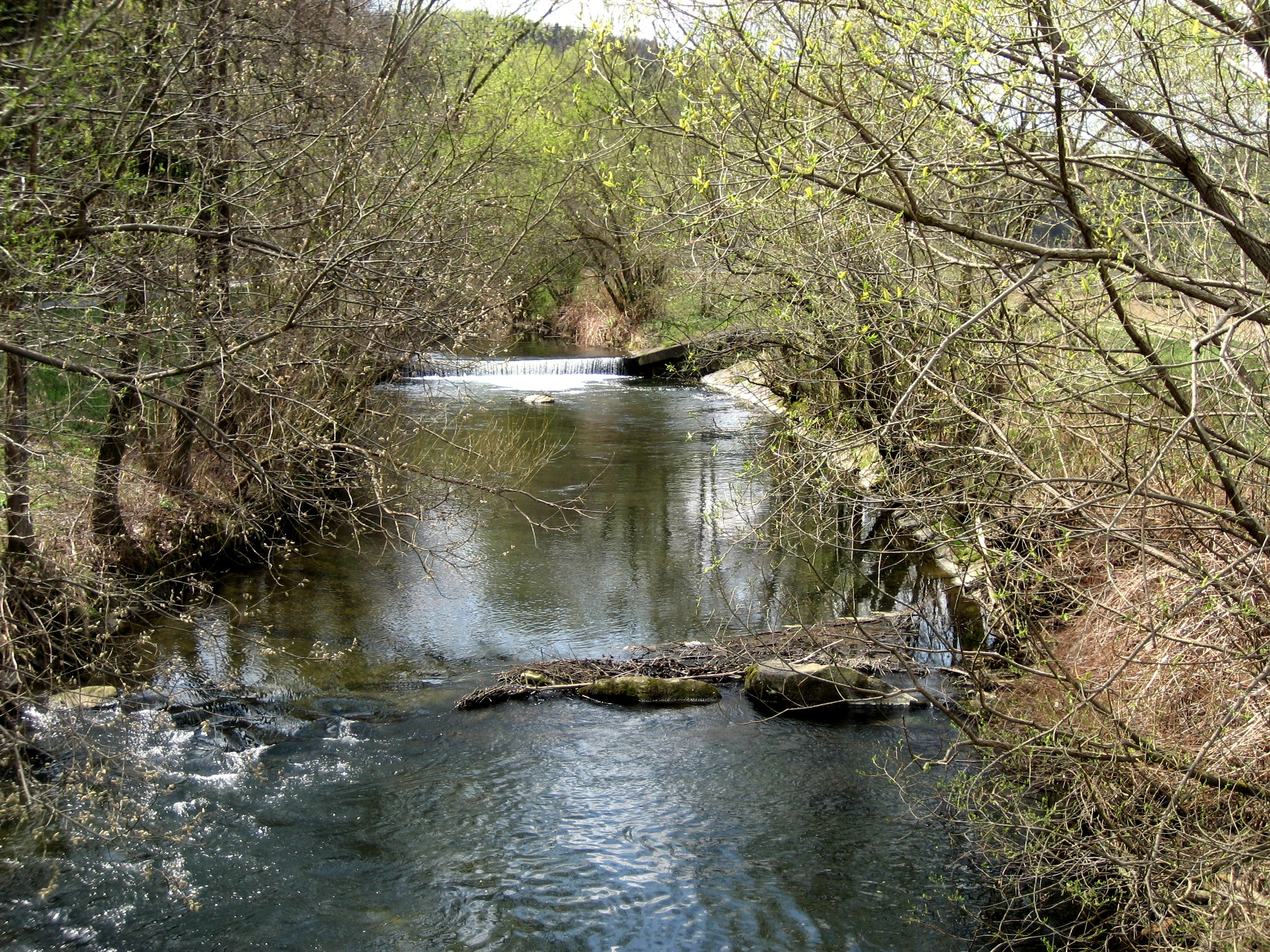 Sulm in Styria,Austria, Europe